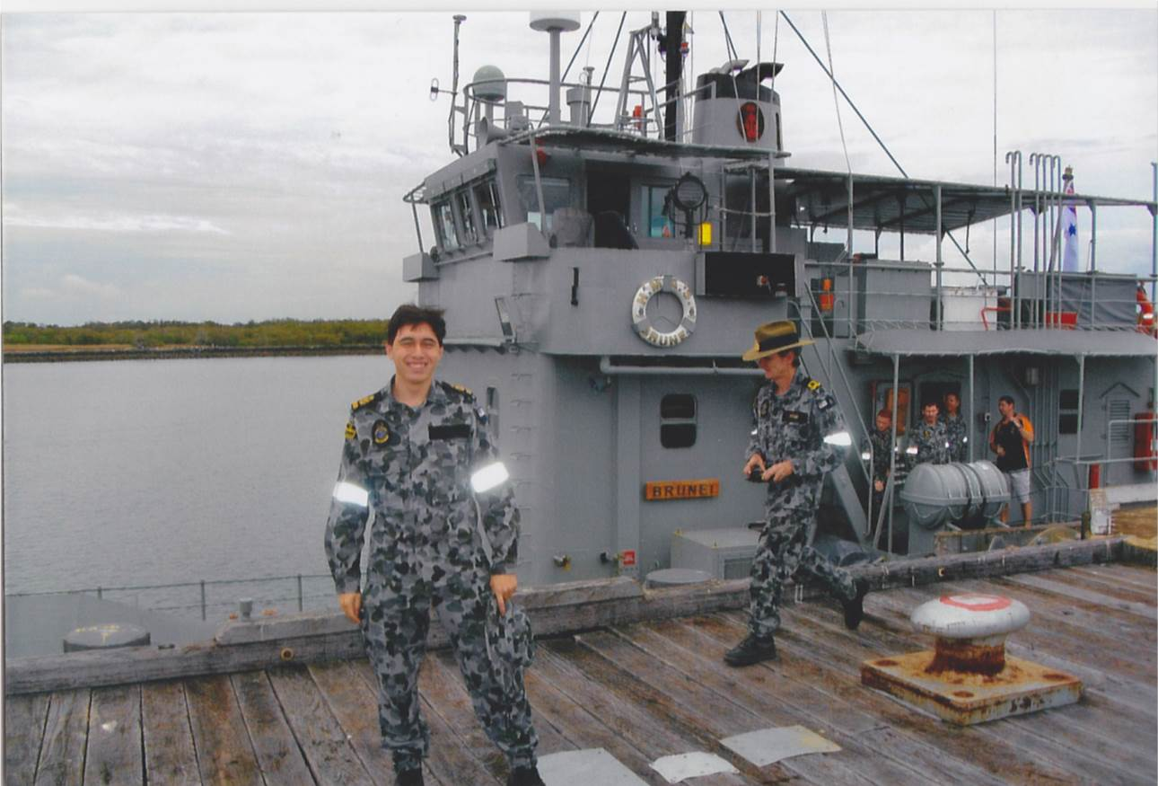 CDTPO Bishop visiting the HMAS Brunei